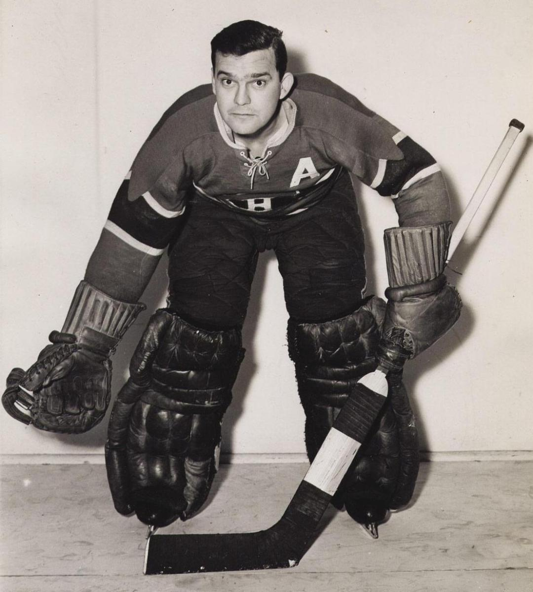 Bill Durnan, goalkeeper for Canadiens de Montréal hockey team.